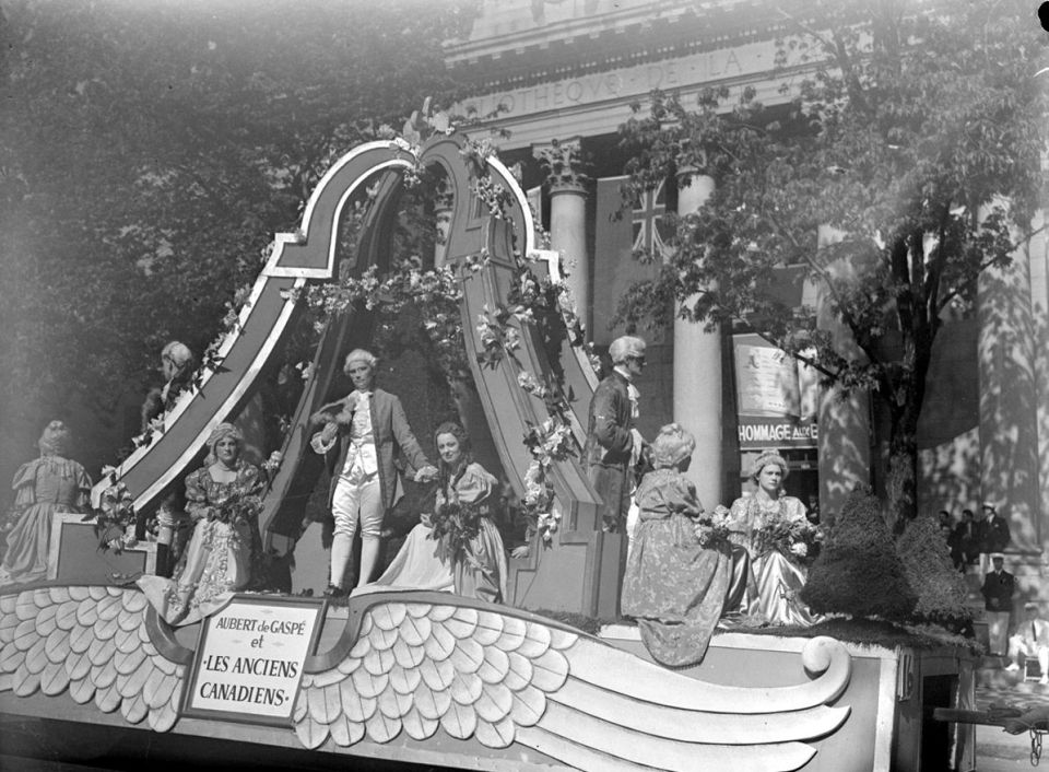 We see a float of the parade of Saint-Jean-Baptiste in Montreal dedicated to the novelist Philippe Aubert de Gaspé.